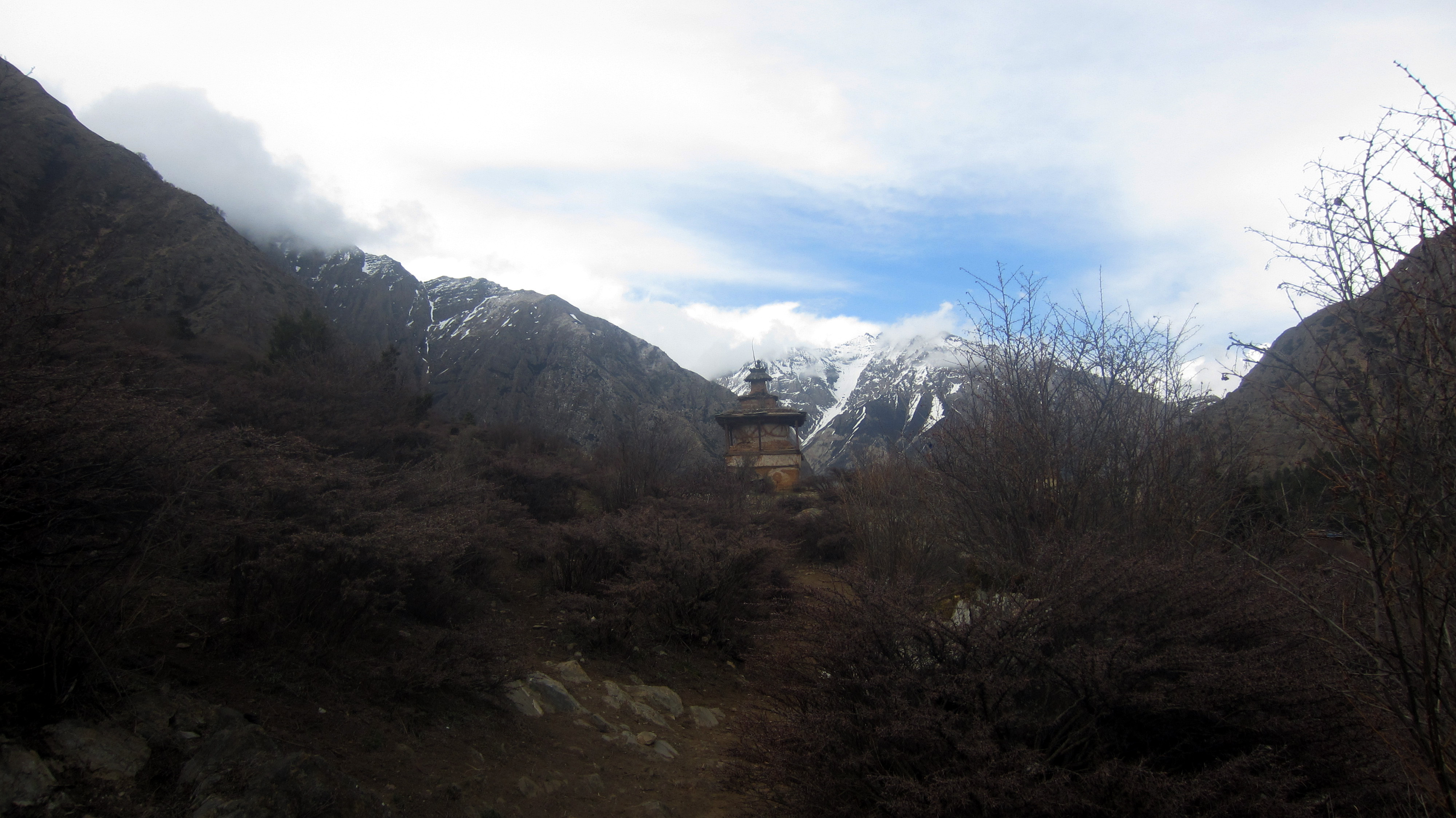 The famous Buddhist Monastery near Phoksundo Lake